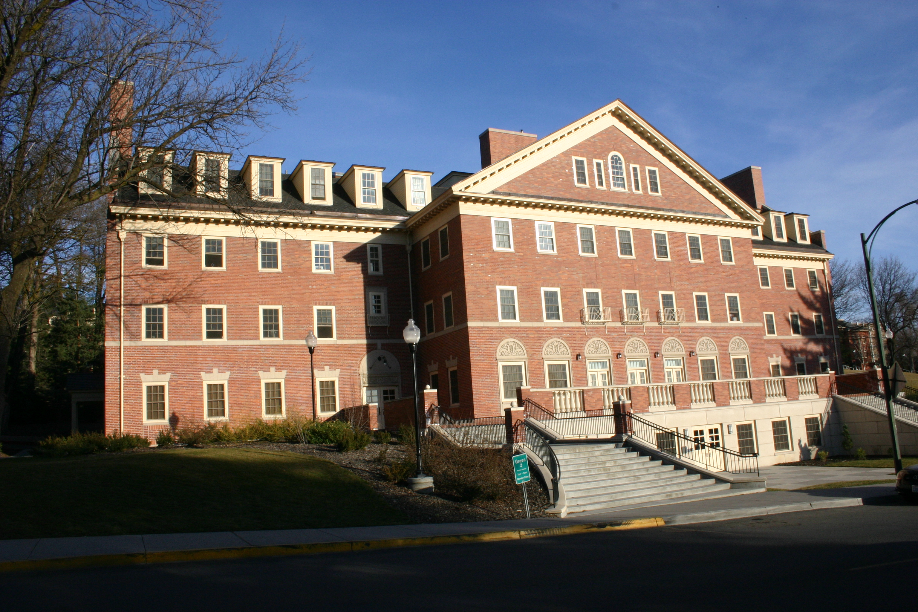 Elmina White Hall (formerly Honors College), 2004